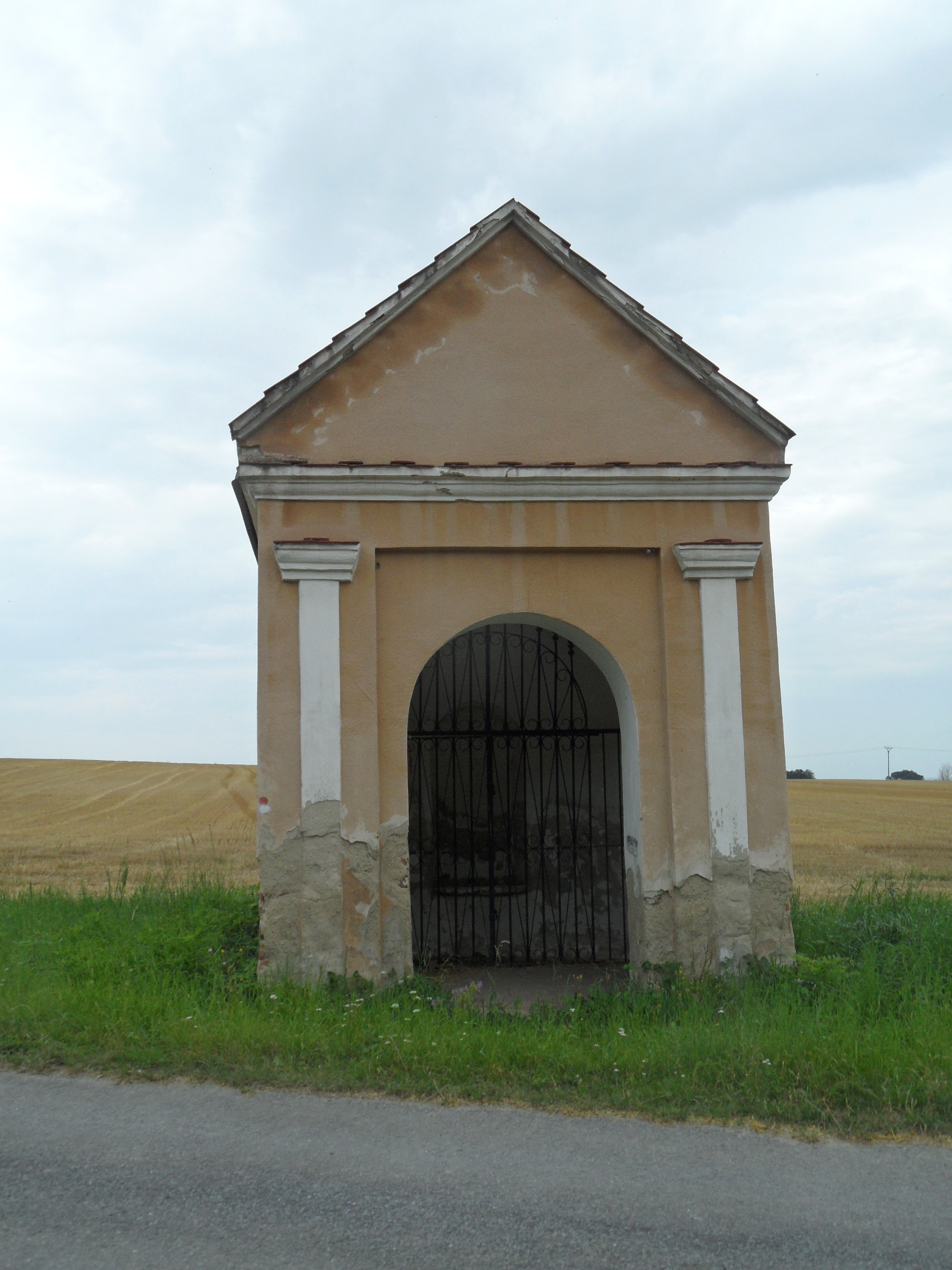 Velká Kraš: Chapel of the Virgin Mary from 19th Century: Face View. Jeseník District, the Czech Republic. �